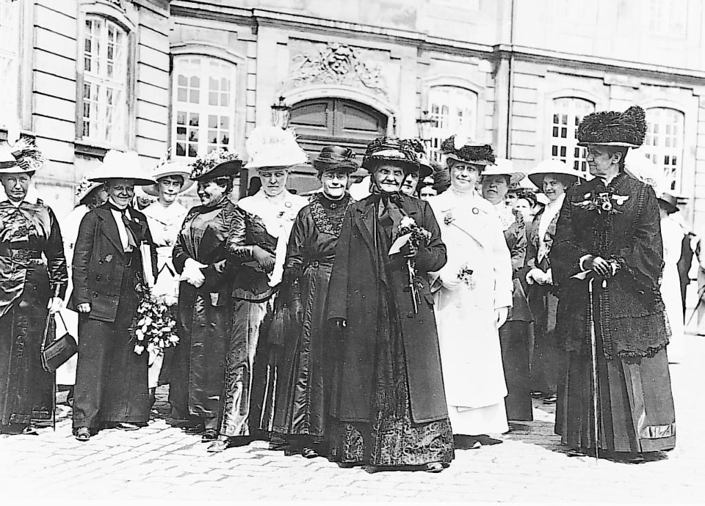 The deputation of Danish women to the Danish monarch on 5 June, 1915. Jutta Bojsen-Møller can be seen in the front in the middle and behind her in dark dress is Henriette Forchhammer, aka Henni Forchhammer (1863-1955), Danish women's rights activist.